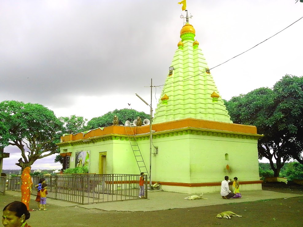 Temblai temple also known as Tryamboli mandir located in the city of Kolhapur in souther Maharashtra, India